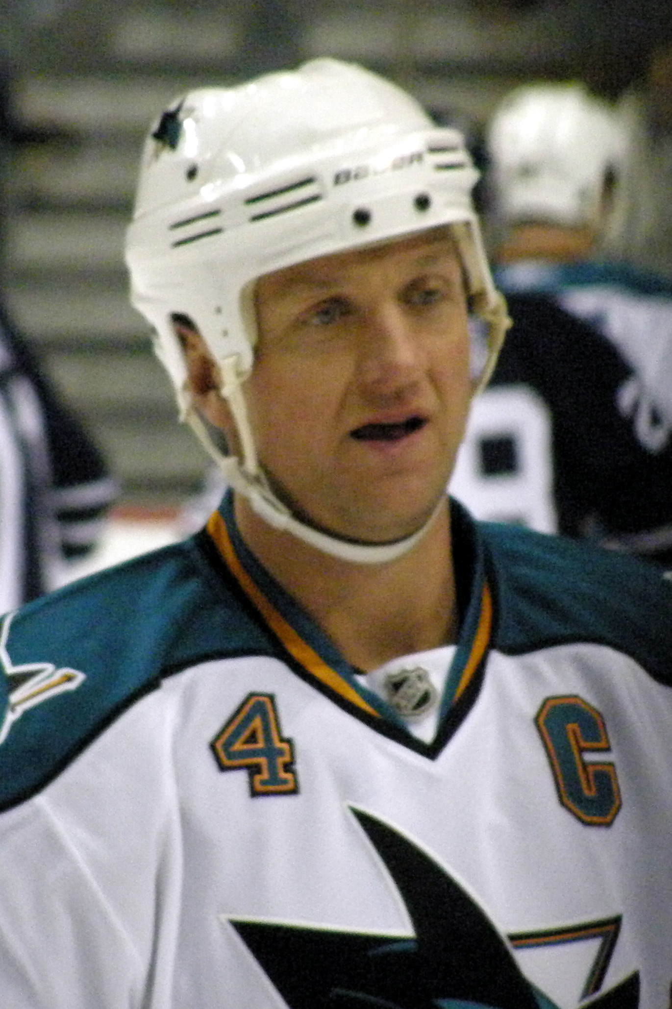 4, Rob Blake, D, SJS San Jose Sharks at Nashville Predators, February 6, 2010